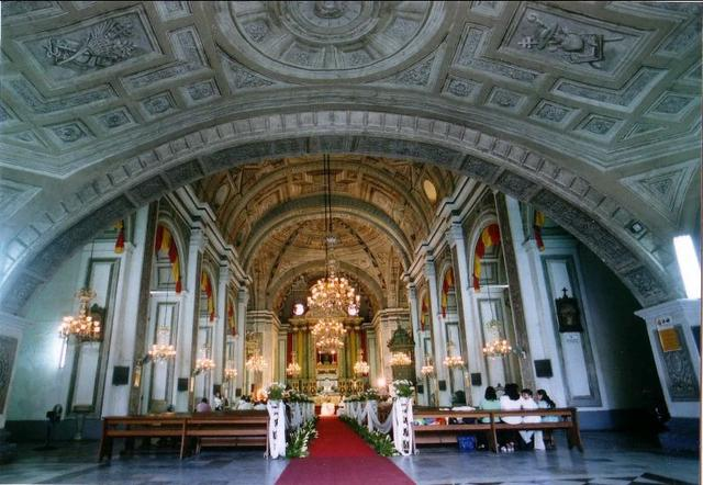 Interior of San Agustin Church, Manila in Manila, Philippines. (Joel Natividad[1])